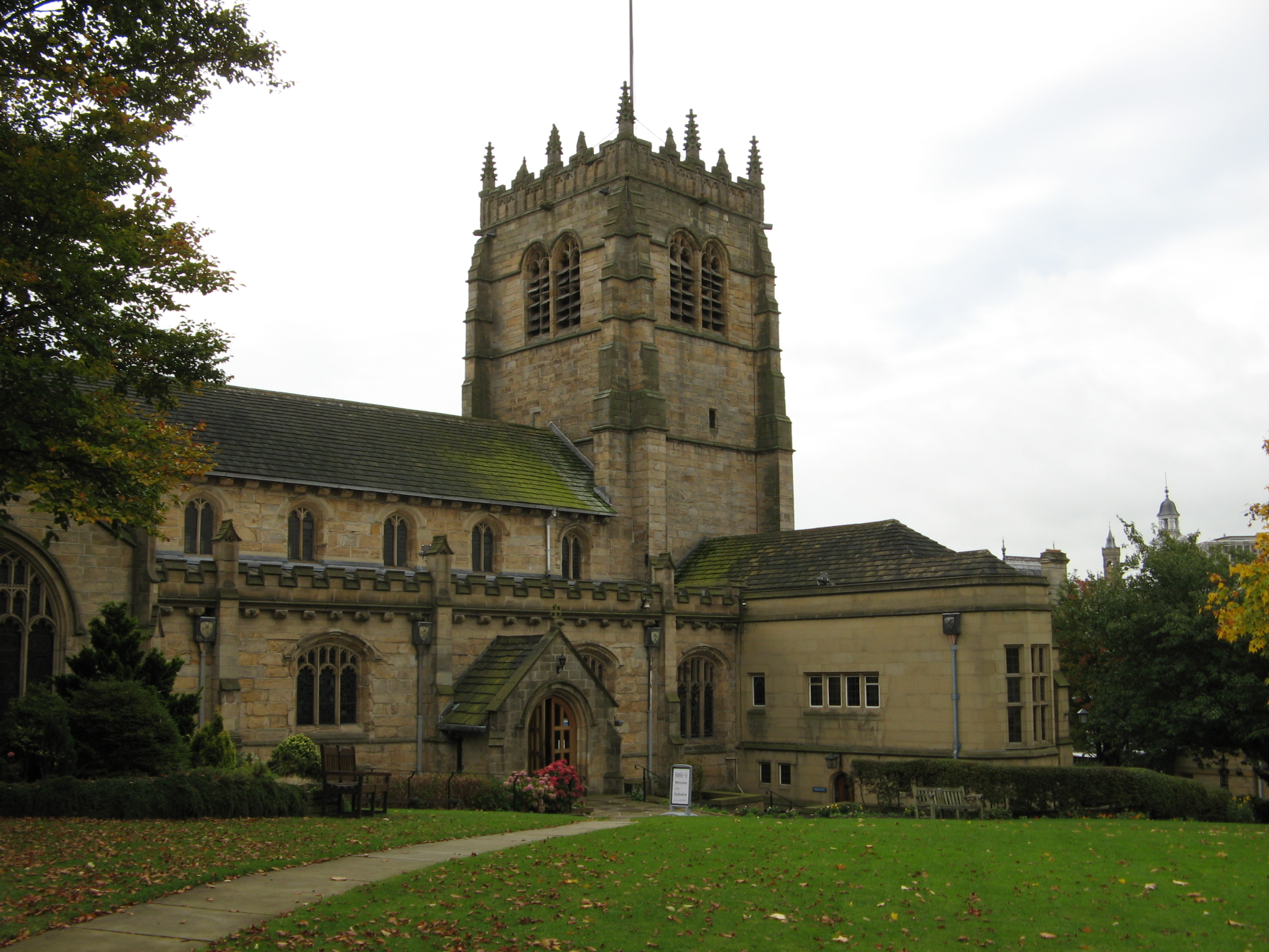 Bradford Cathedral